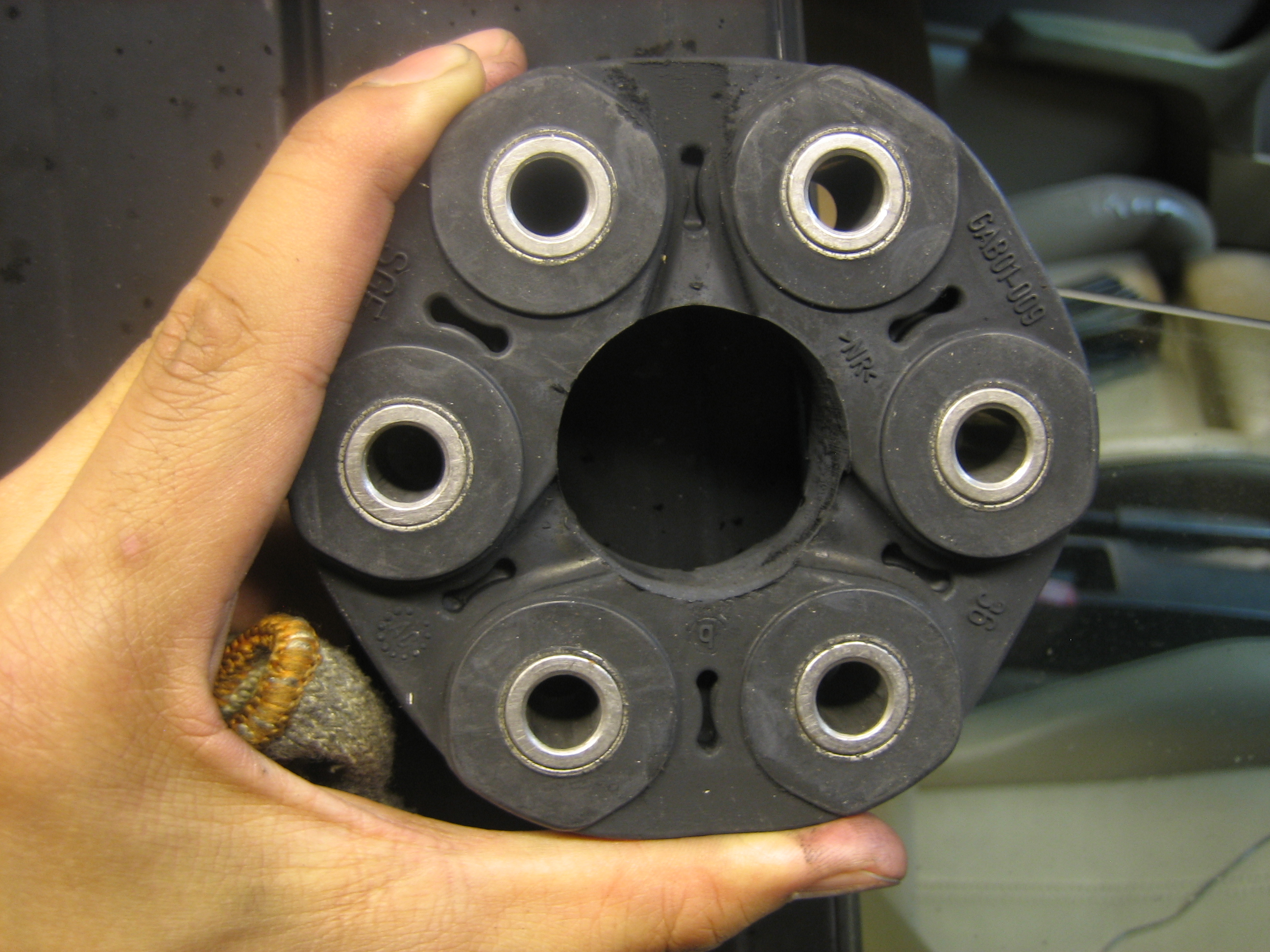 A new giubo, or flex disc, for the driveline of a BMW E30 325i late-model coupe.